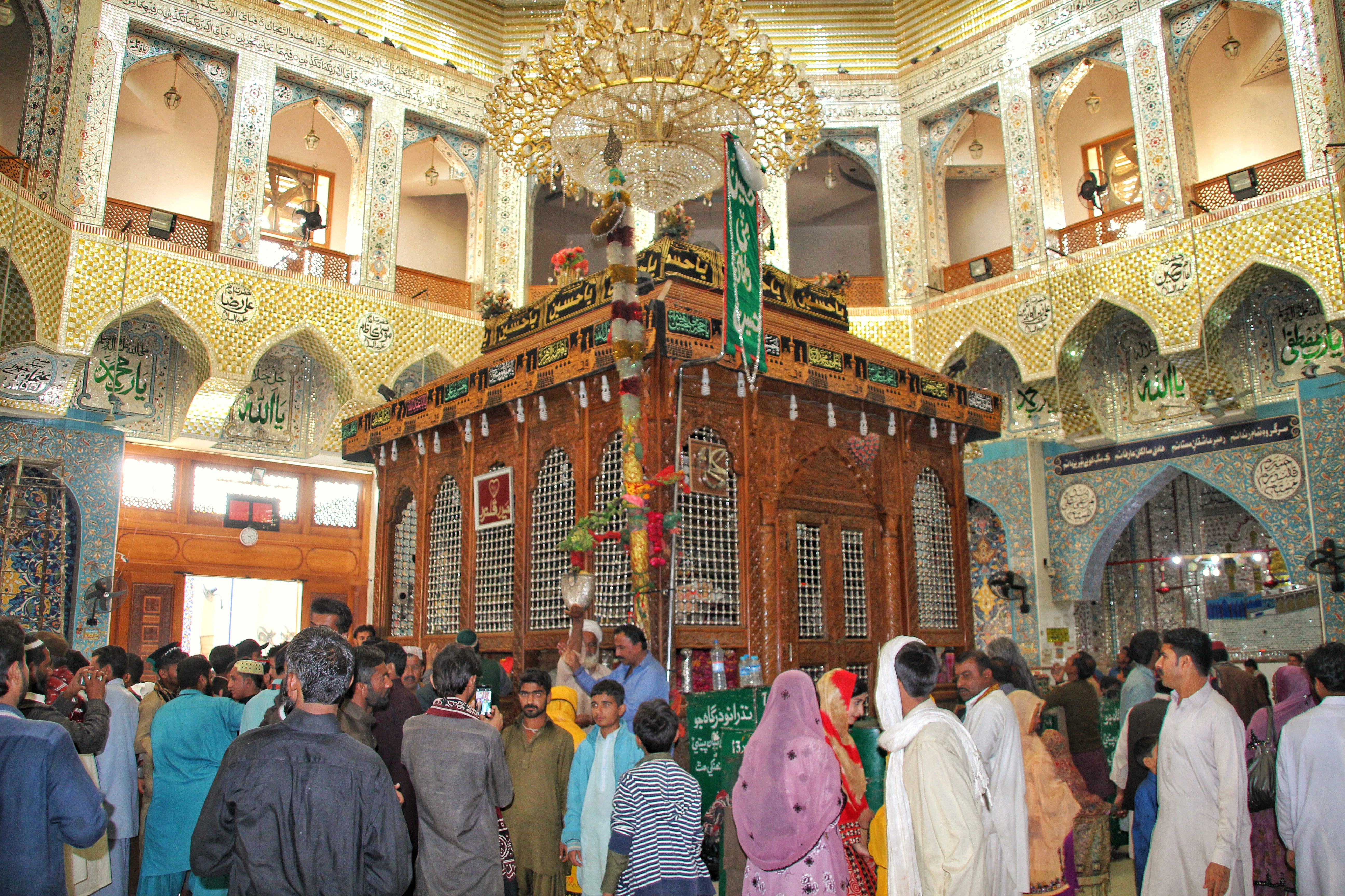 Shrine of Lal Shahbaz Qalandar This is a photo of a monument in Pakistan identified as the SD-U-6